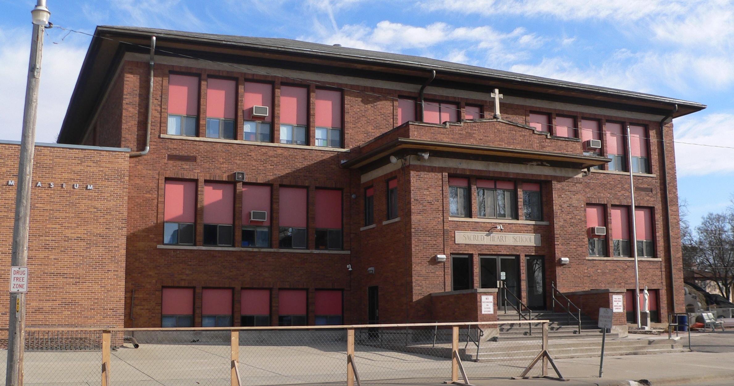 Sacred Heart School, located at 504 Capital Street in Yankton, South Dakota; seen from the northwest.